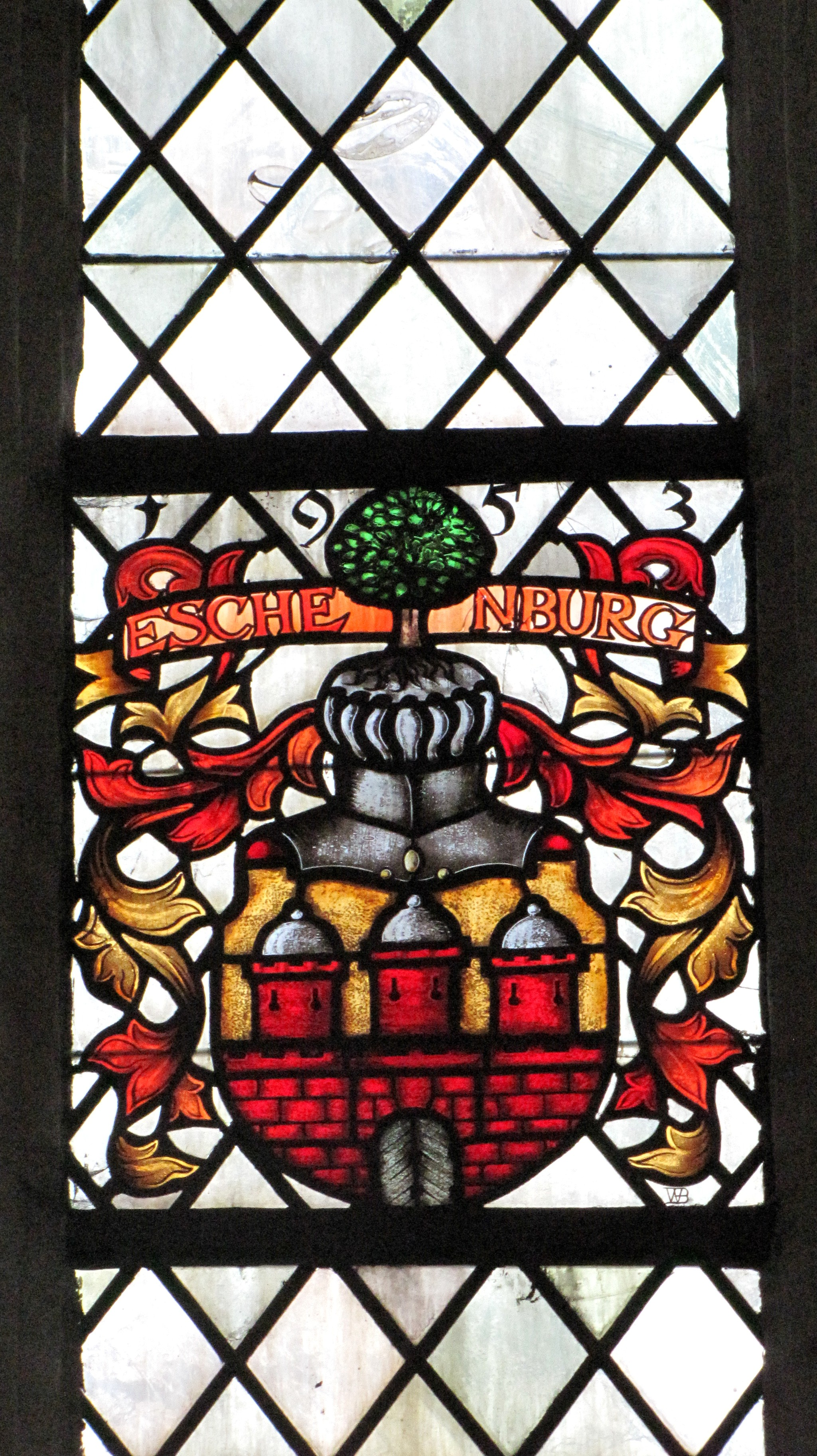 Eschenburg family coat of arms in the Marienkirche, Lübeck